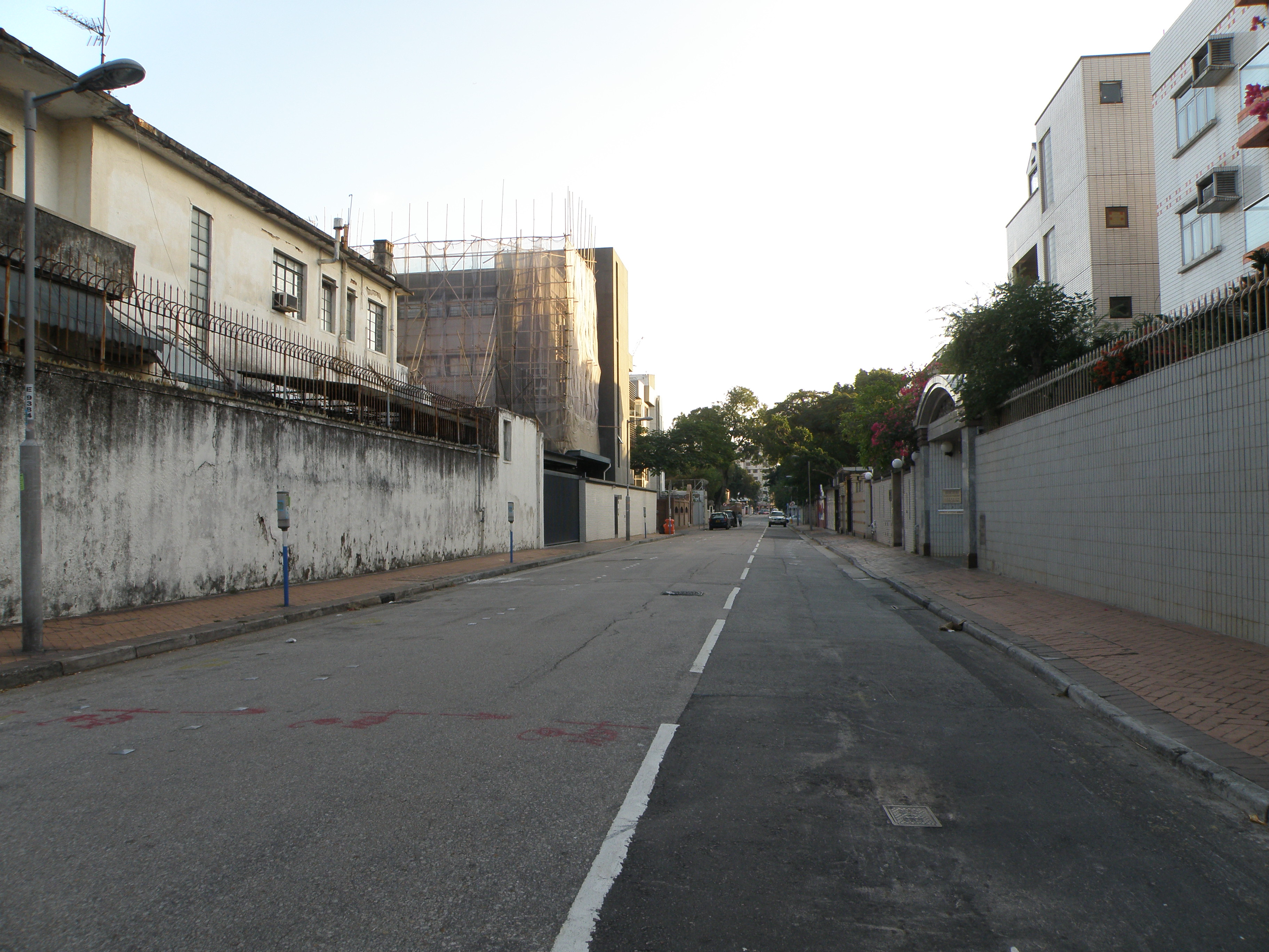 Cambridge Road in Kowloon Tong, Hong Kong.